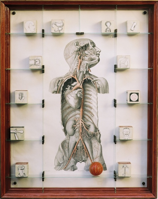 Arteriae Pelvis, Abdomimis, et Pectoris, 1883, 70 x 45.5 x 8 cm